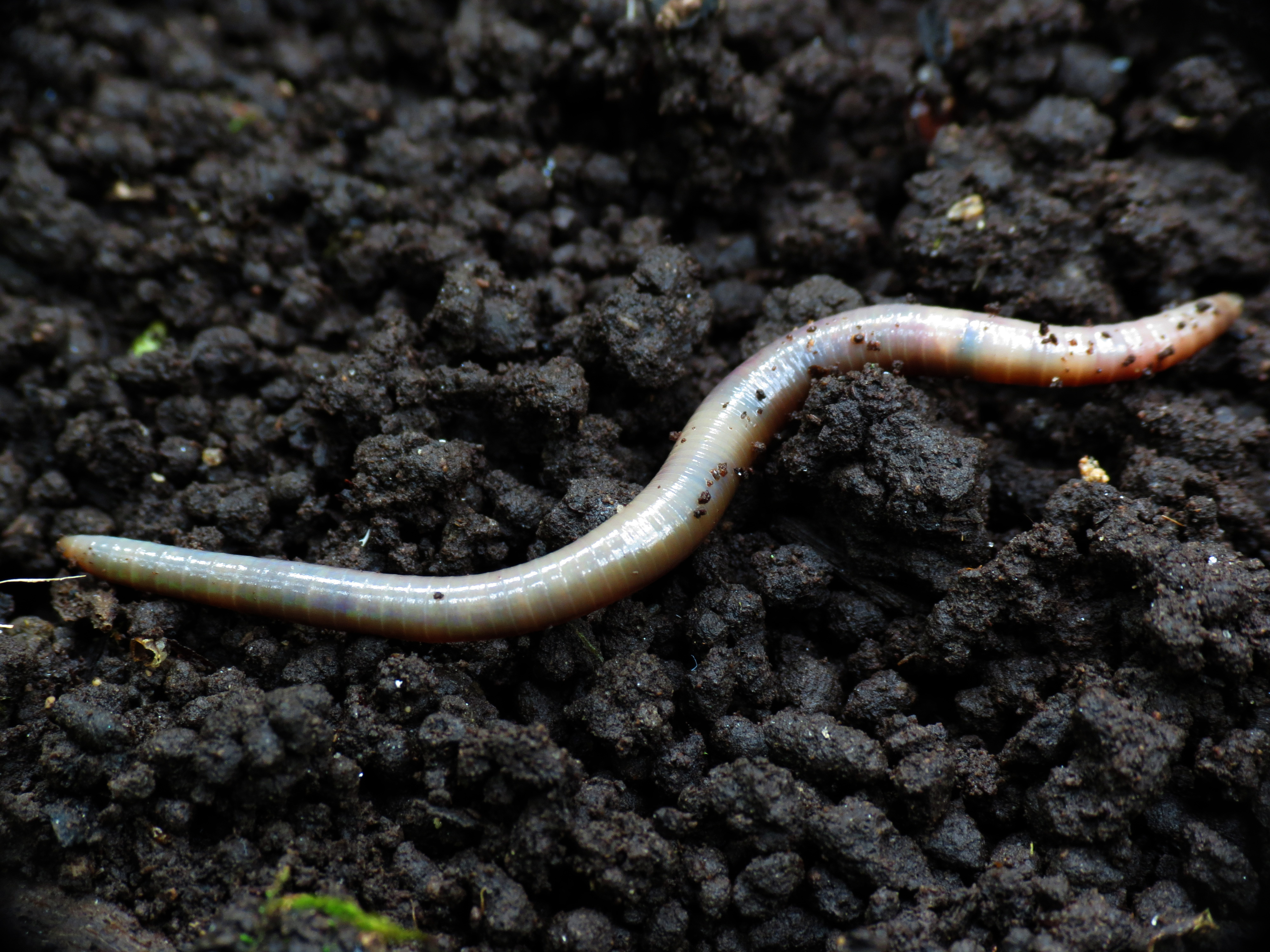 Rock Creek Park, Washington, DC, USA